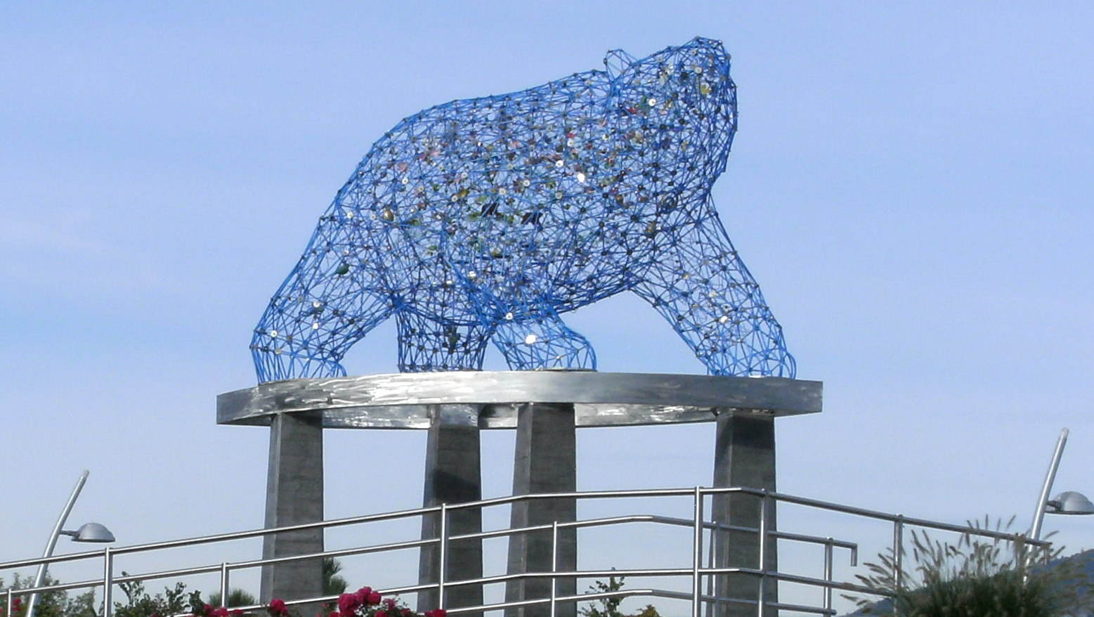 Work of art in the center of Kelowna, BC, Canada